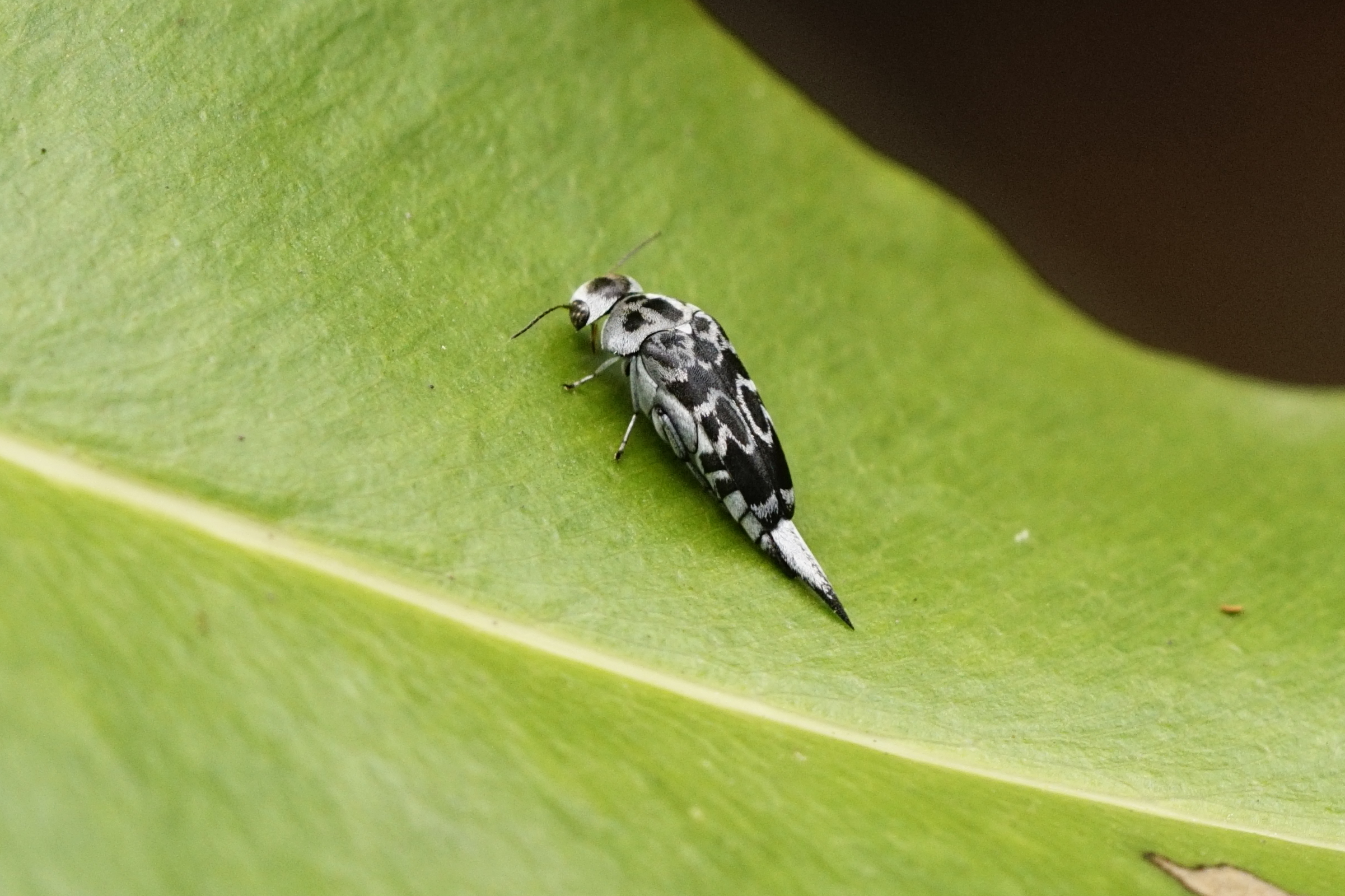 Glipa sp (Mordellidae)